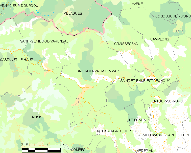 Map commune FR insee code 34260.png - Saint-Gervais-sur-Mare